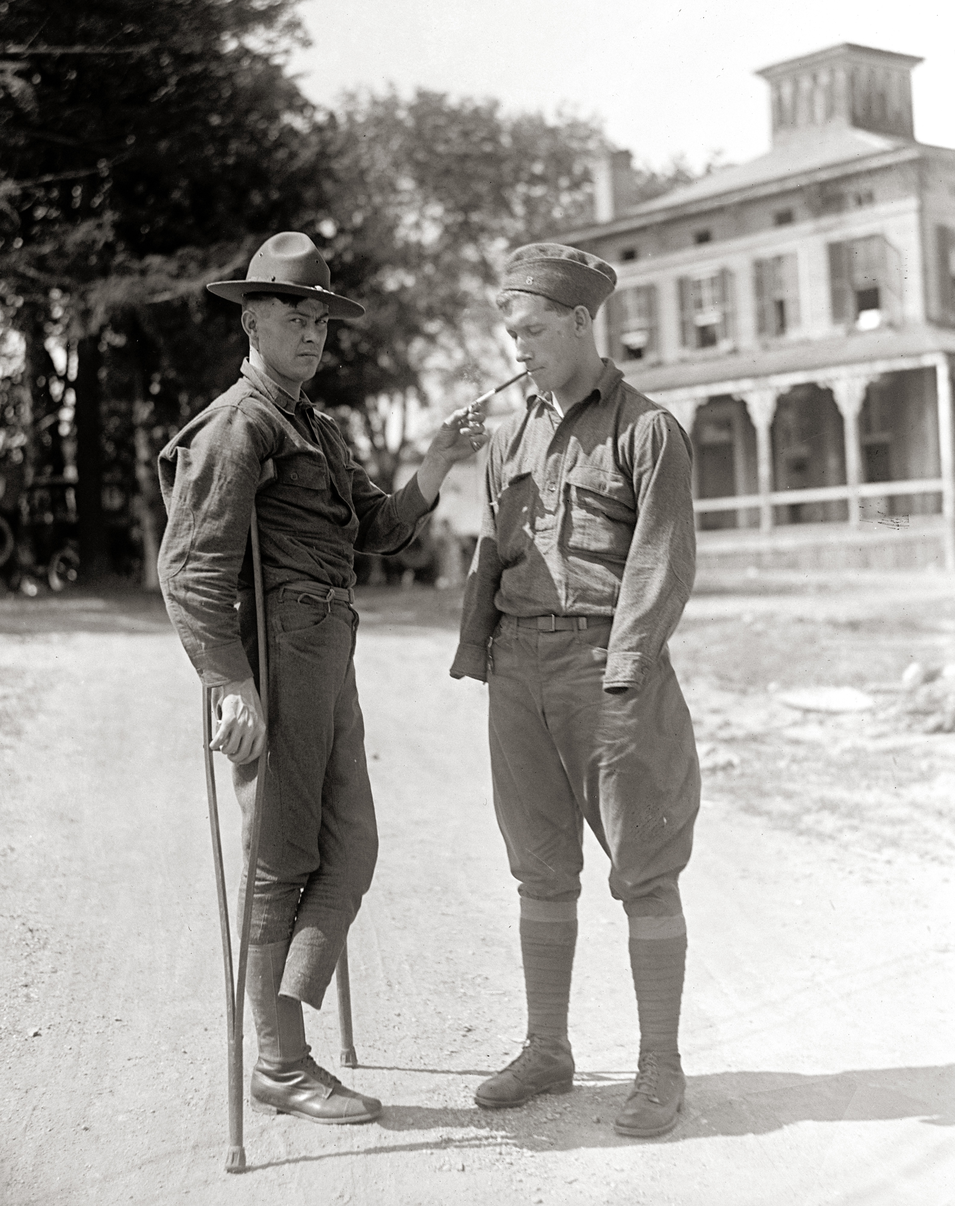 American soldiers who lost limbs during a World War I battle. They were recovering at the Walter Reed Hospital in Washington, D.C.